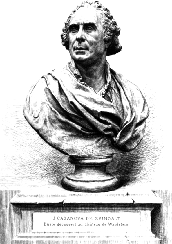 Portrait of Giacomo Girolamo Casanova de Seingalt (1725-1798) age forty. Etching after a terra cotta bust found in Duchcov Castle. (Cf. Text section below.)